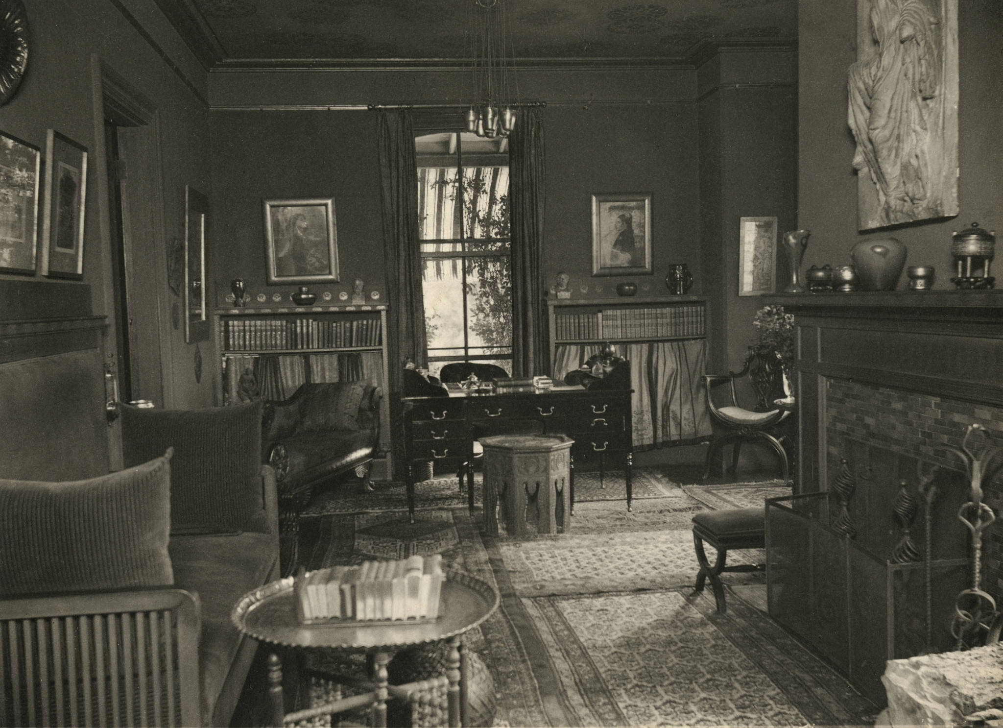 The Deanery, Interior View, M. Carey Thomas' Study, Bryn Mawr College